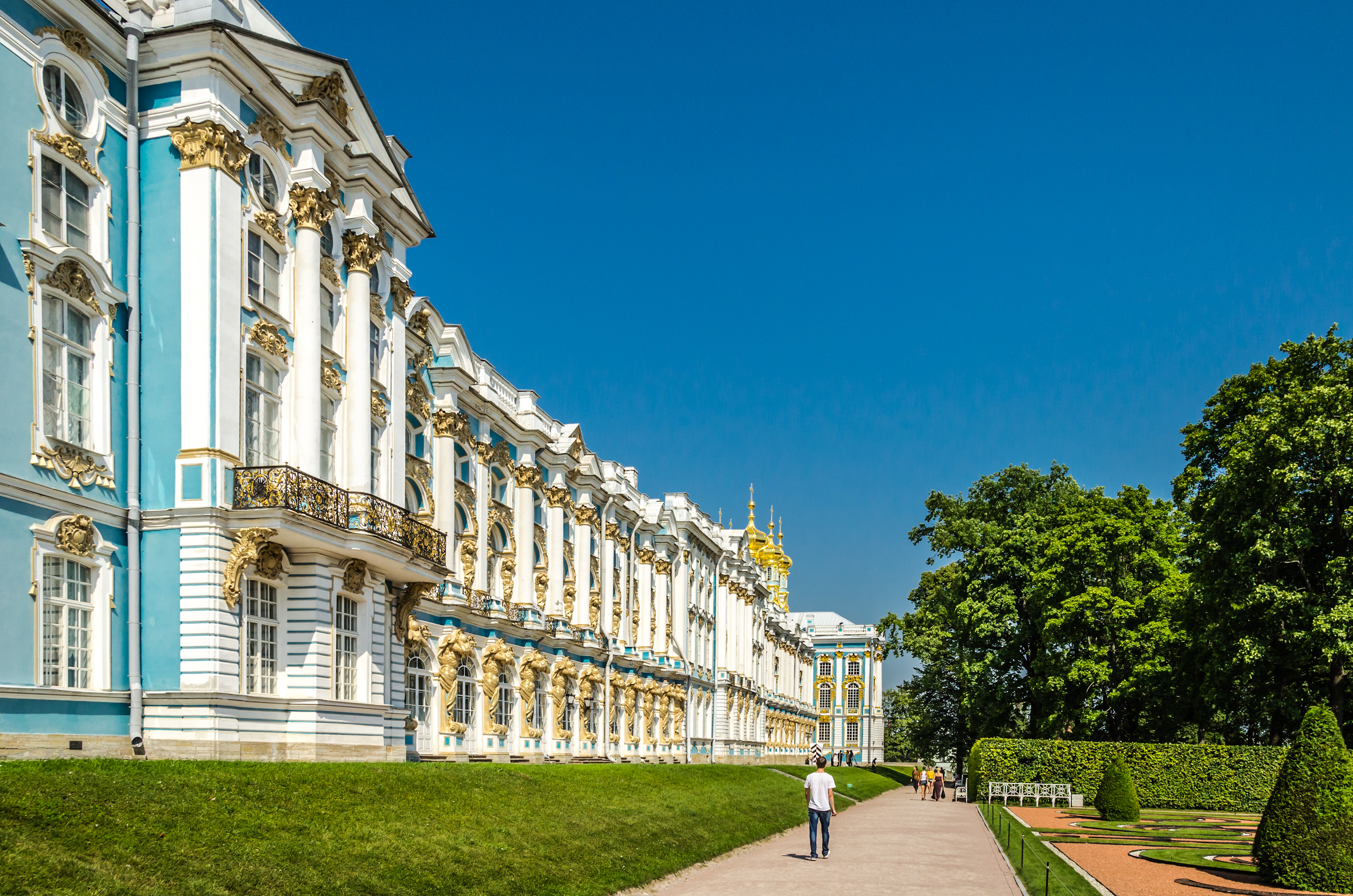 Catherine Palace in Tsarskoe Selo, Saint Petersburg